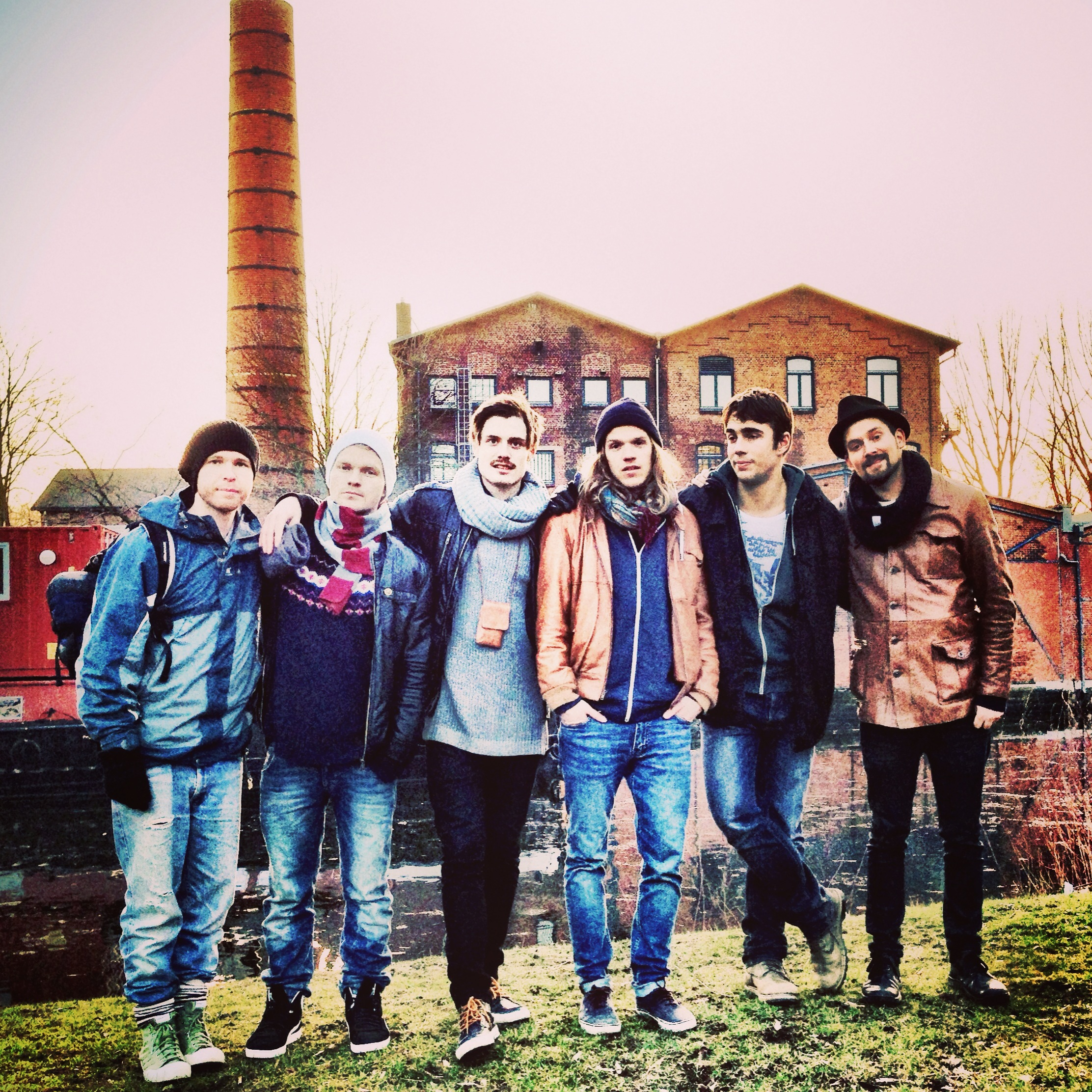 Isak Strand vs TOE